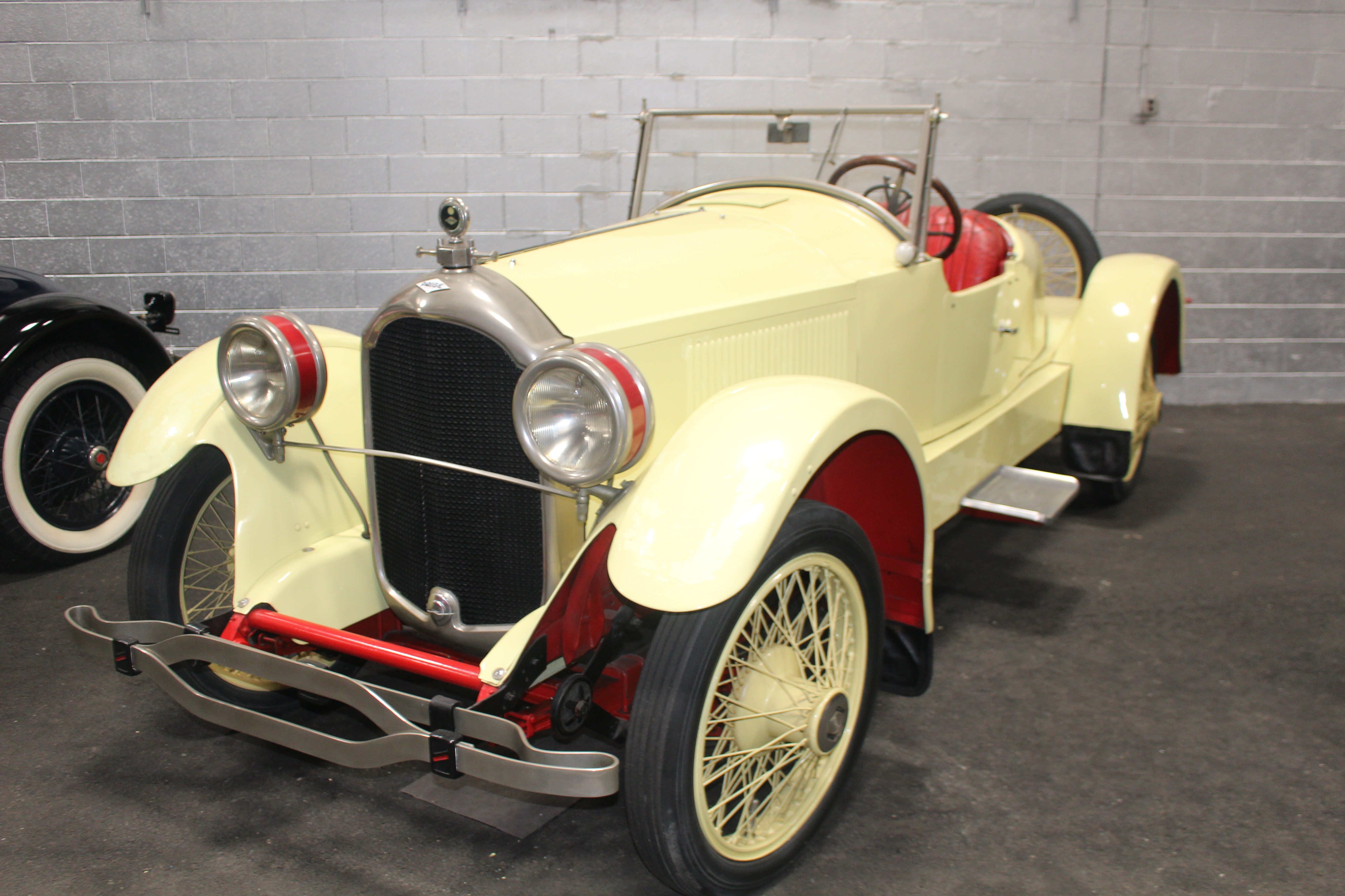 A 1922 Paige 6-66 Daytona Speedster. This car is located in the Simeone Foundation Automotive Museum.